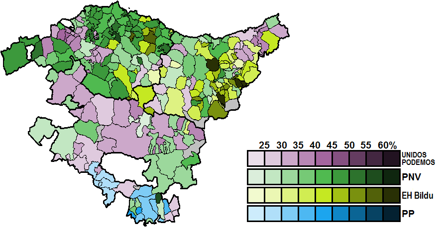 Most-voted party in Basque Country municipalities, showing vote share obtained, in the Spanish general election, 2016.